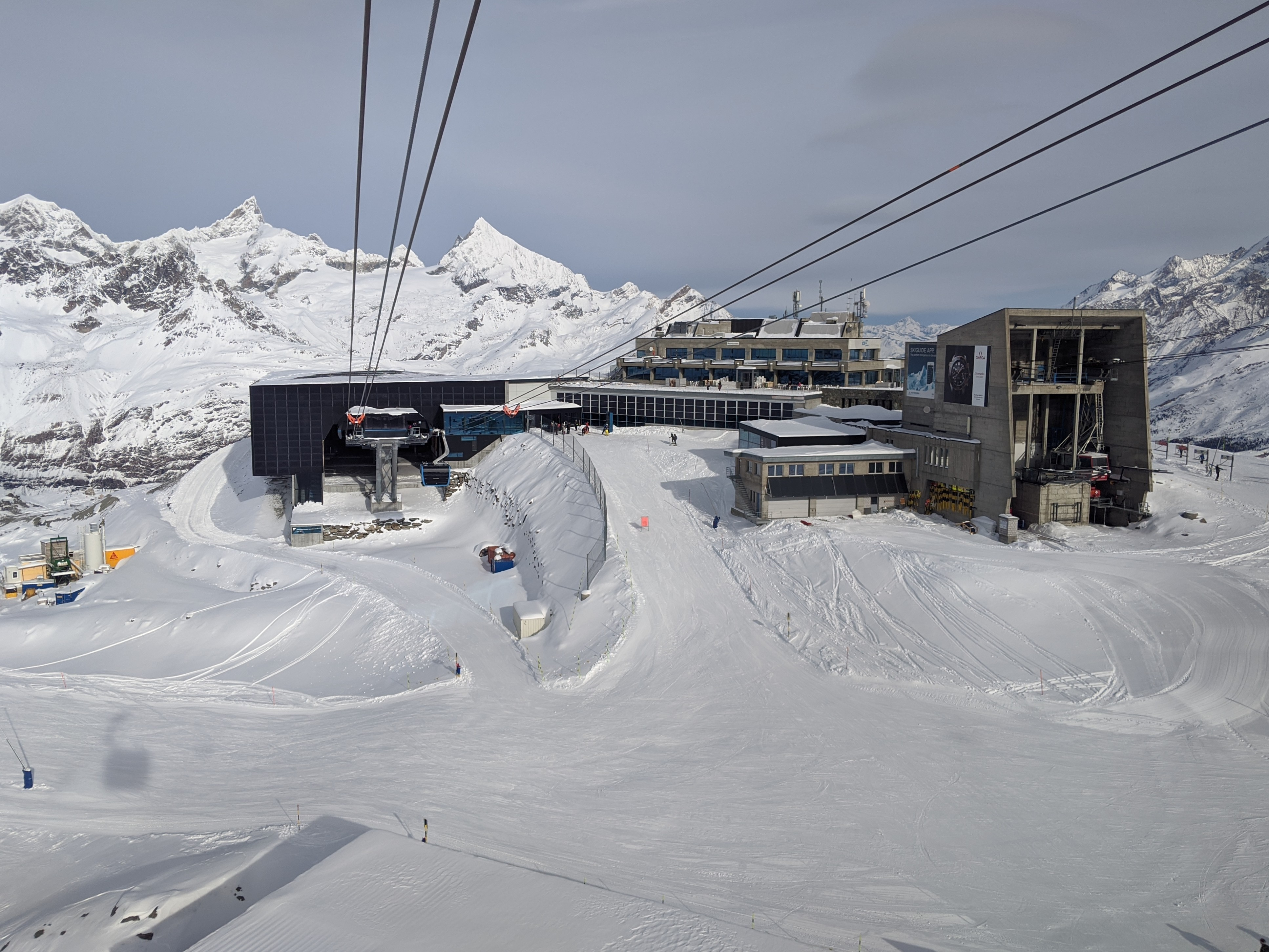 View of Trockener Steg station. The gondola lift on the left is the new 3S lift which connects Trockener Steg with the Klein Matterhorn. The old gondola lift is on the right.